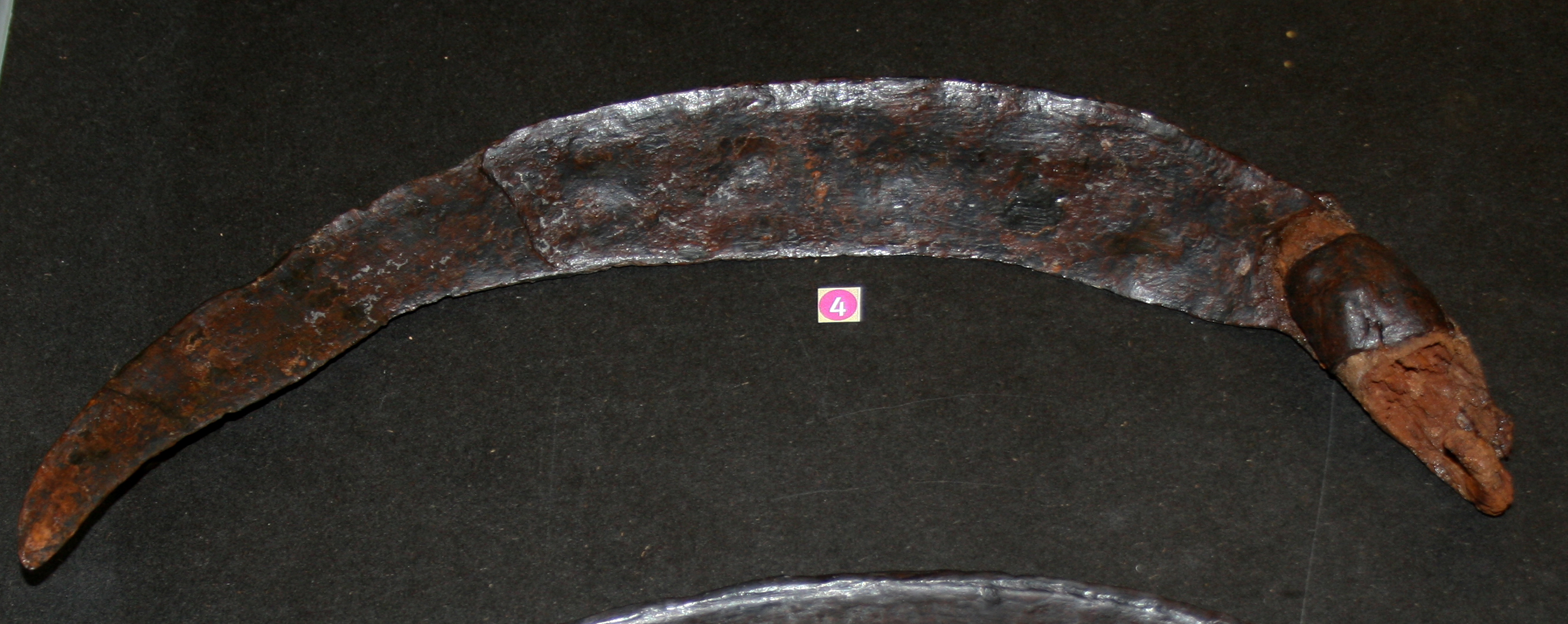 Scythe Stage : La Tène culture (- 300 years Before the Current Era) Place of discovery : Chevilly, Loiret, France